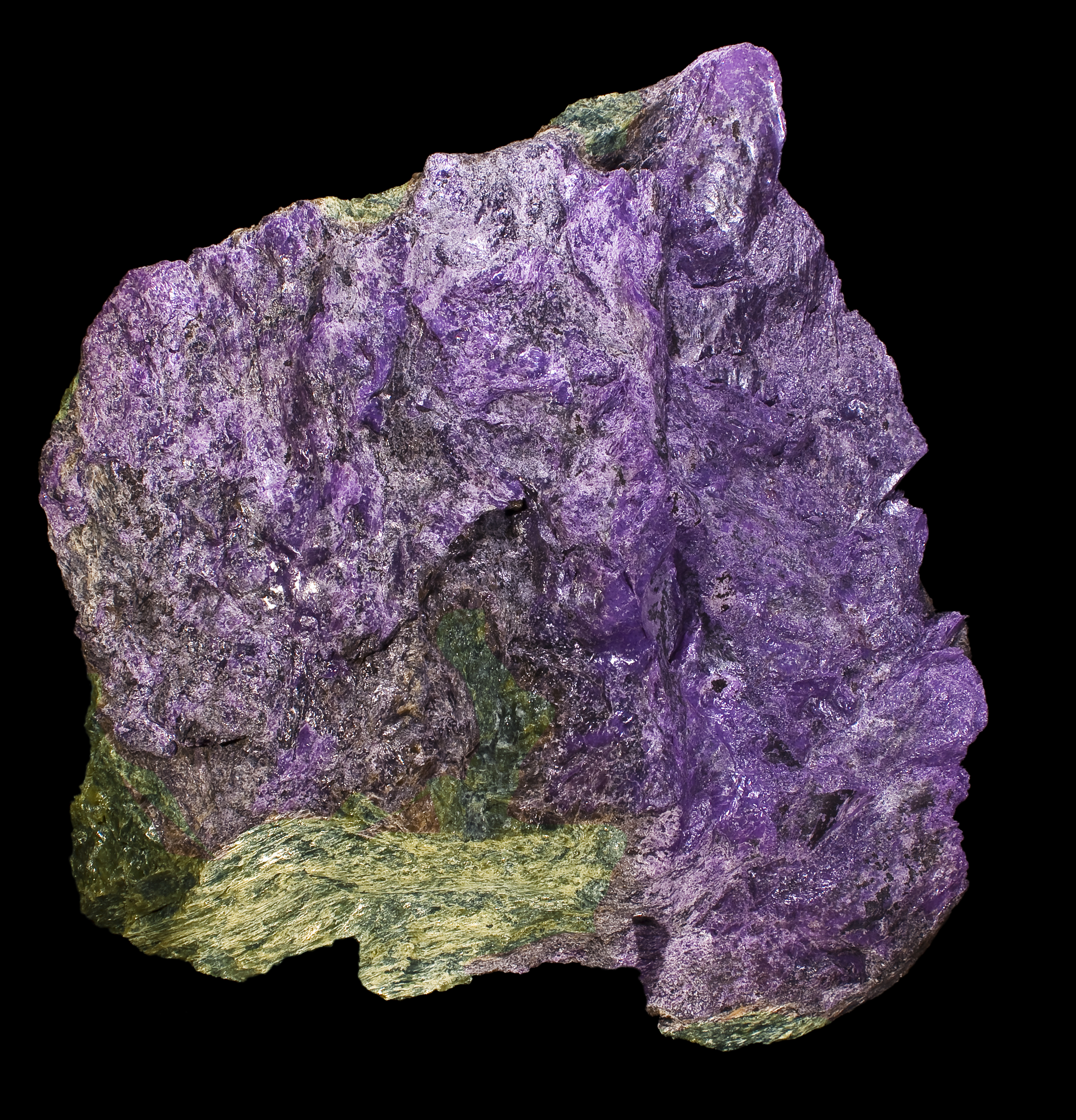 Stichtite and lizardite Locality: Stichtite Hill, Dundas mineral field, Zeehan District, Tasmania, Australia Size :15 × 14 cm.